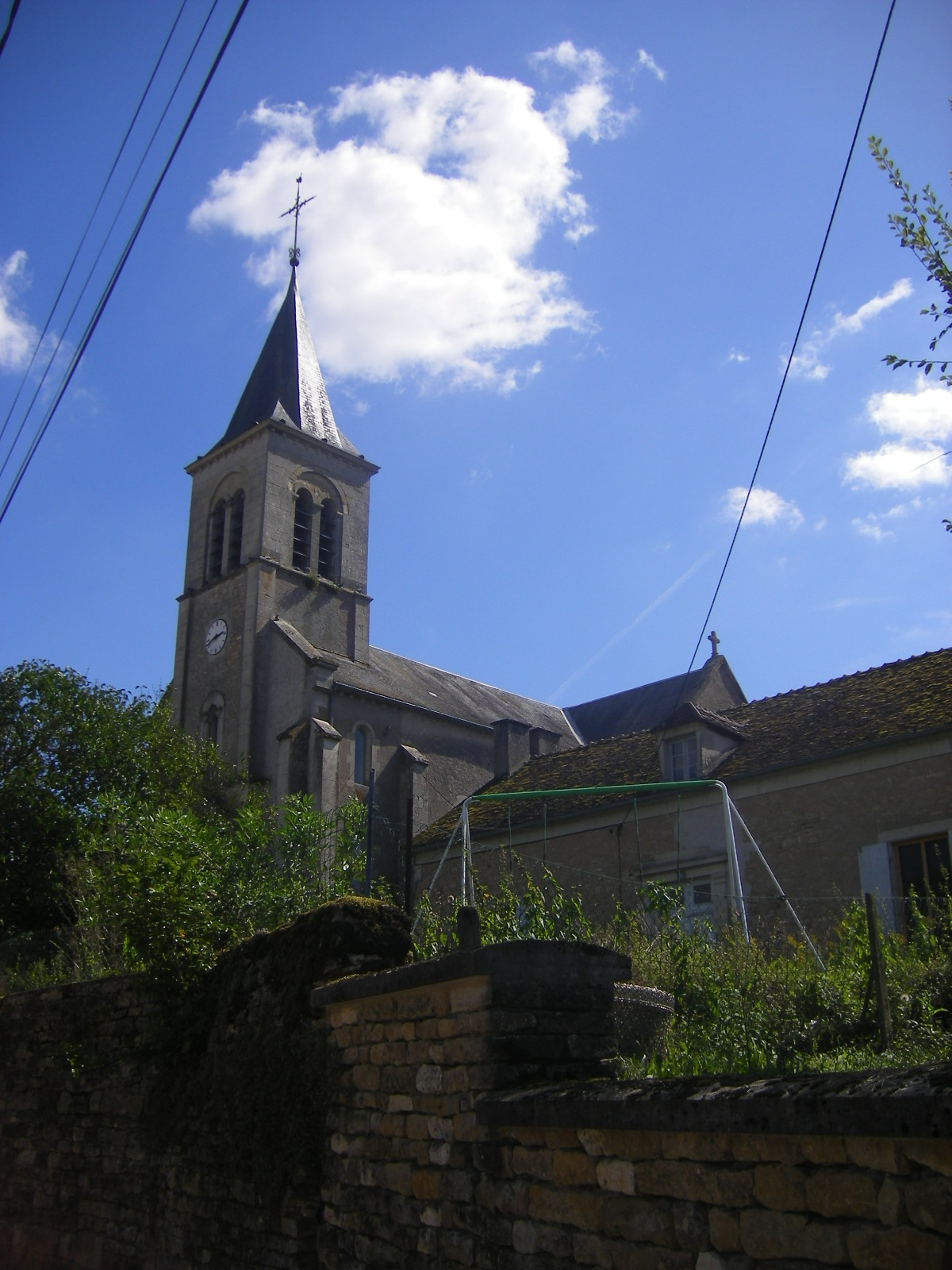 Taconnay